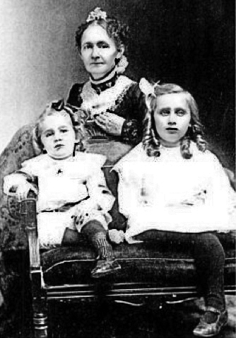 Anna Mary Robertson Moses with two of her children - estimate between 1890 and 1910